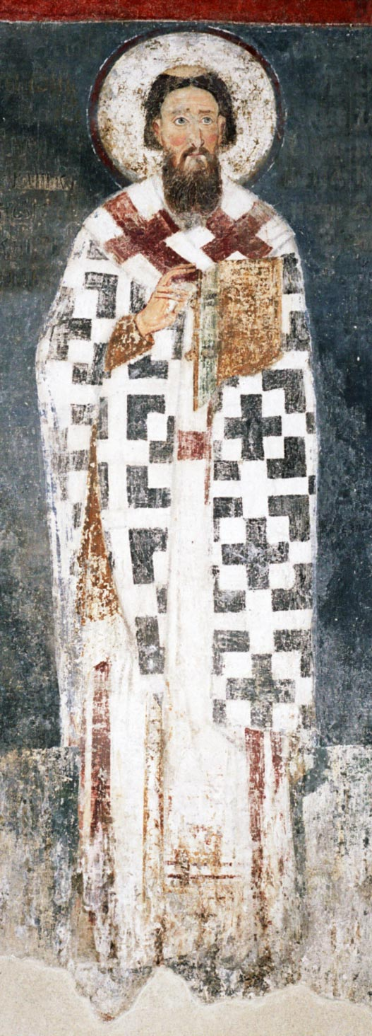 Fresco of Saint Sava in the Mileševa monastery. 13th century.